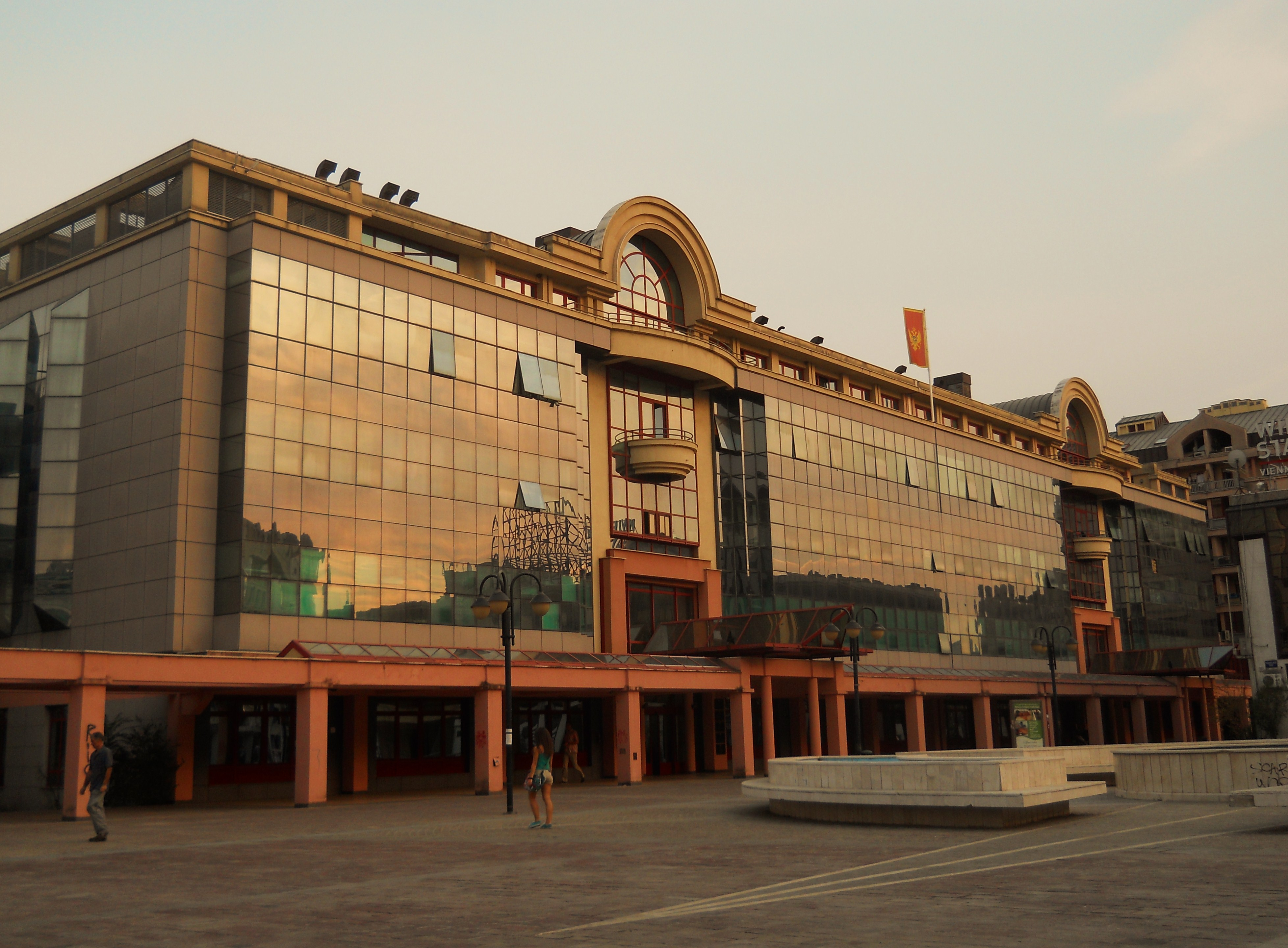 Roman Square, Podgorica